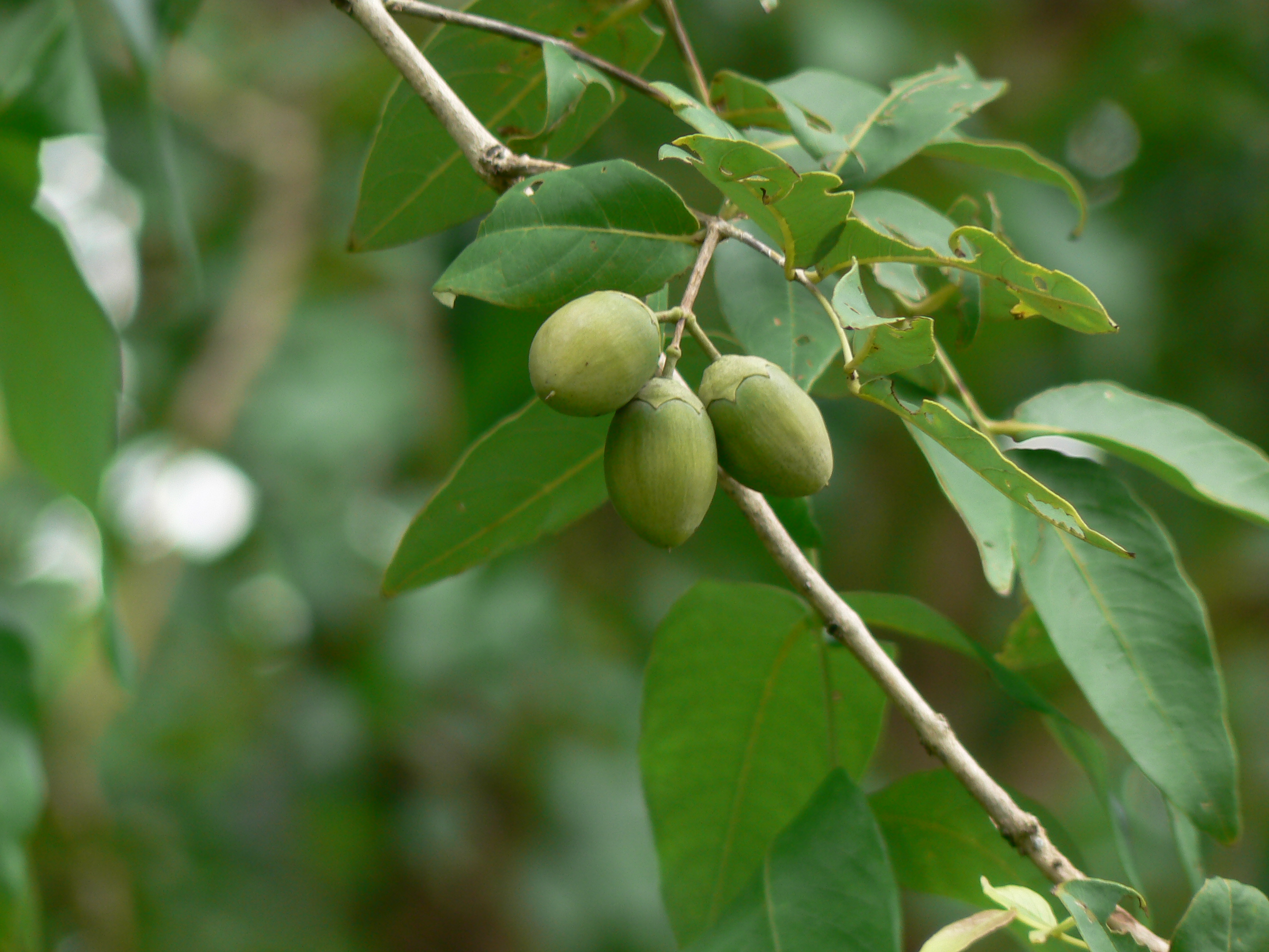 Lythraceae (Lythrum, or loosestrife family) » Lagerstroemia parviflora la-ger-STROO-mee-uh -- named for Magnus von Lagerström, Swedish naturalist par-VEE-flor-uh or par-vi-FLOR-uh -- meaning, small flowers commonly known as: decussate-leaved lagerstroemia, nandi, sidha • Assamese: dhauli, sida • Bengali: sidha • Garo: bolsidai, sidai • Hindi: लेंडीया lendia, सिद्धा siddha • Kannada: ಚನ್ನಮ್ಗಿ channamgi • Khasi: dieng lang sing • Konkani: नानो nano • Malayalam: ചെനങ്കി cenanki • Marathi: बोंडारा bondara, बोंडगा bondga, लेंडीया lendia, नाना nana • Nepalese: बोट धायंरो bot dhaiyanro • Tamil: பேய்க்கடுக்காய் pey-k-katukkay • Telugu: చిన్నంగిచెట్టు chinnangi-chettu Native to: Bhutan, India, Nepal, Myanmar References: Flowers of India • Botanical • ENVIS - FRLHT • DDSA